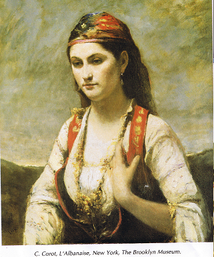 The Young Woman of Albano Camille Corot.